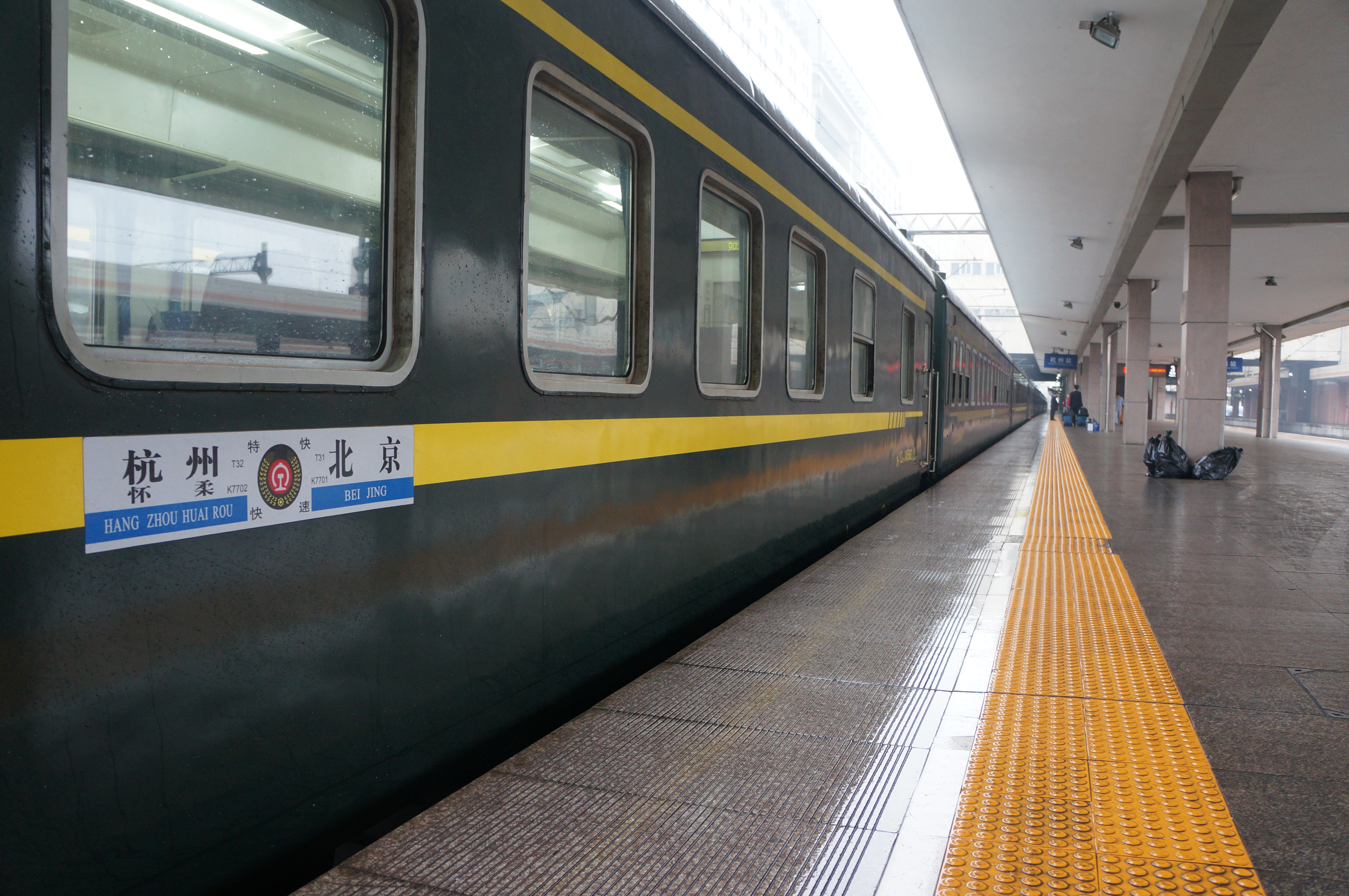 201812 Coaches of T31 at Hangzhou Station